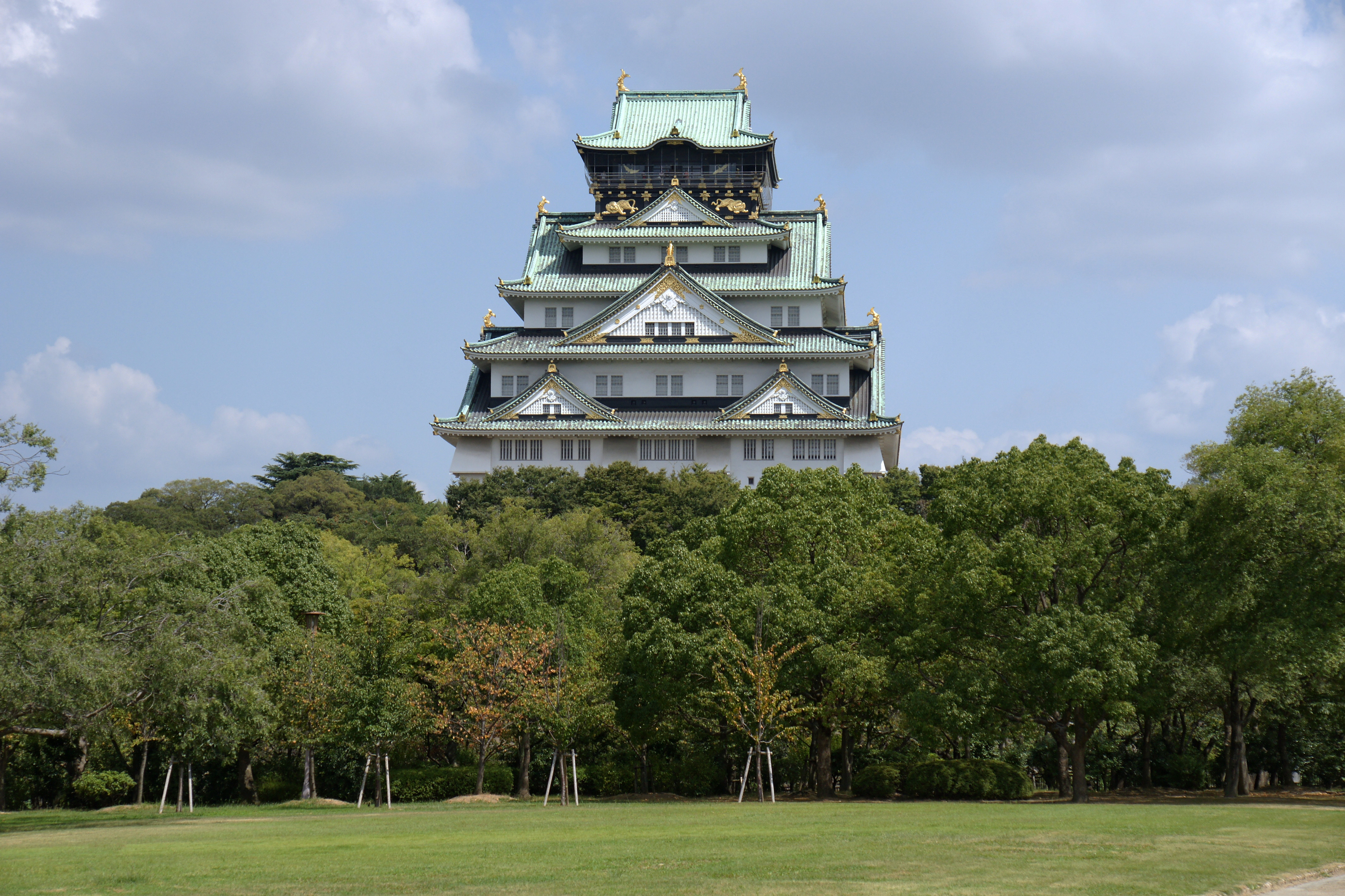 Nishinomaru Garden of Osaka Castle in Chuo-ku, Osaka, Osaka prefecture, Japan